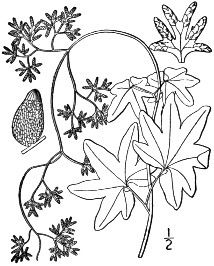 Fig. 20. Lygodium palmatum from the second edition of An Illustrated Flora of the Northern United States, Canada and the British Possessions (New York, 1913)